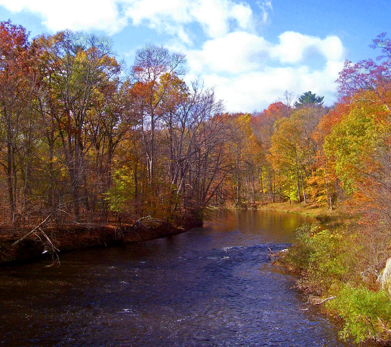 Photographed by Daniel Case 2006-10-21 at the Hardenburgh Road bridge north of Pine Bush